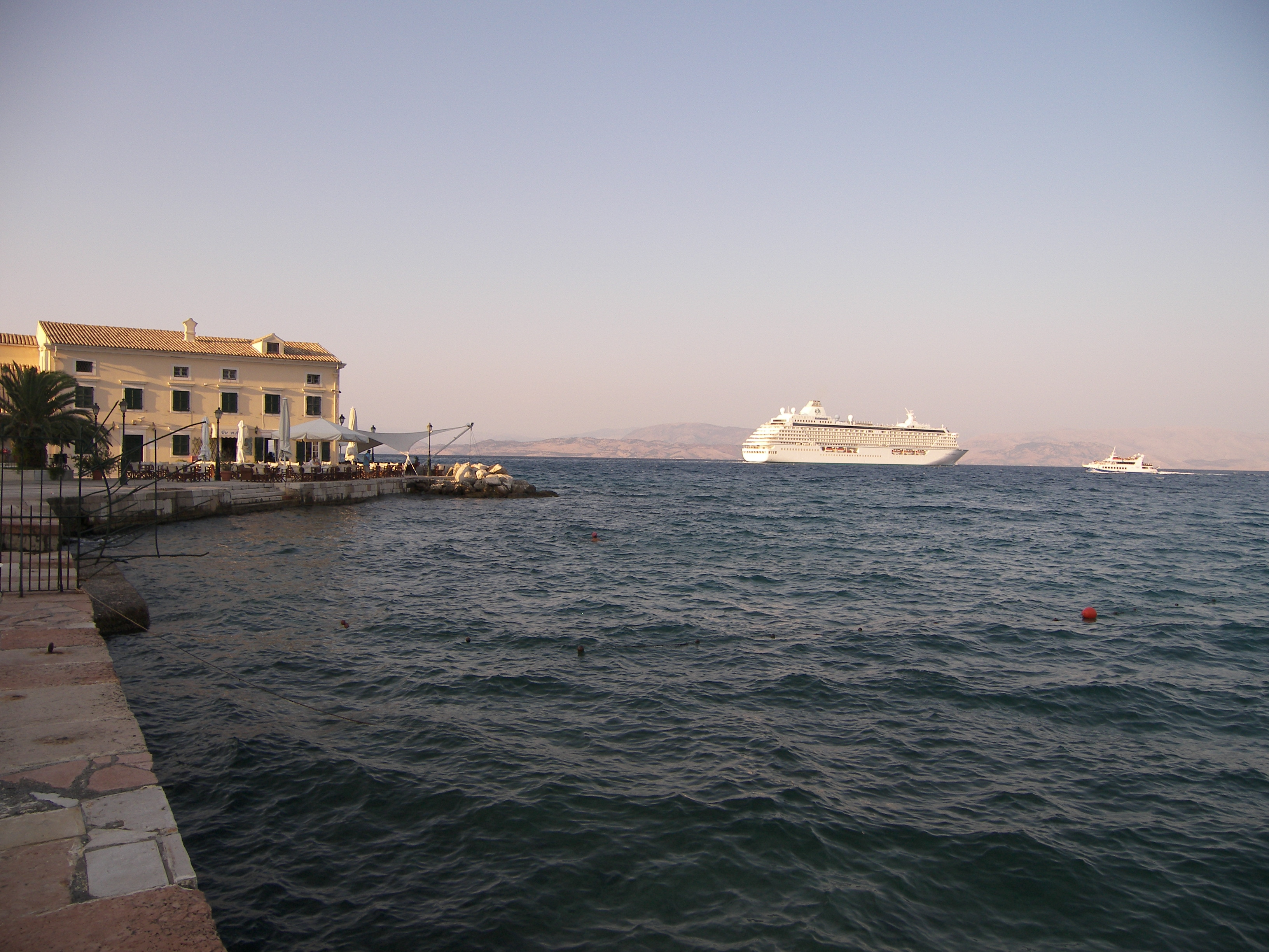 Please see filename